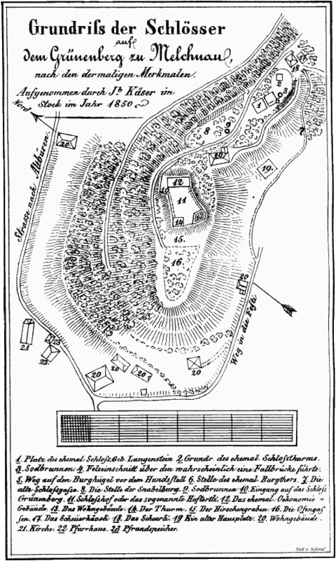 Map of Grünenberg Castle in Melchnau, Bern, Switzerland from Jakob Käser, Käser-Chronik from 1855. Legend: Langenstein Castle/Burg Langenstein: 1. Site of Langenstein Castle 2. Site of the former castle tower 3. Fountain 4. Notches carved in the rock for a bridge or drawbridge 5. Road up the castle hill 6. Site of the former castle gatehouse 7. Old Castle Road Schnabel Castle/Burg Schnabel: 8. Site of the Snabelburg 9. Fountain Grünenberg Castle/Burg Grünenberg: 10. Entrance into Grünenberg Castle 11. Castle courtyard, known as Hoftertli 12. Site of a workshop 13. Residence building 14. Tower 15. Der Hirschengraben a moat or pit 16. Ofengassen road 17. Scheüerkäpeli Chaple 18. Scheurli 19. Site of an old house 20. Houses 21. Church 22. Rectory 23. Prebendary's storehouse